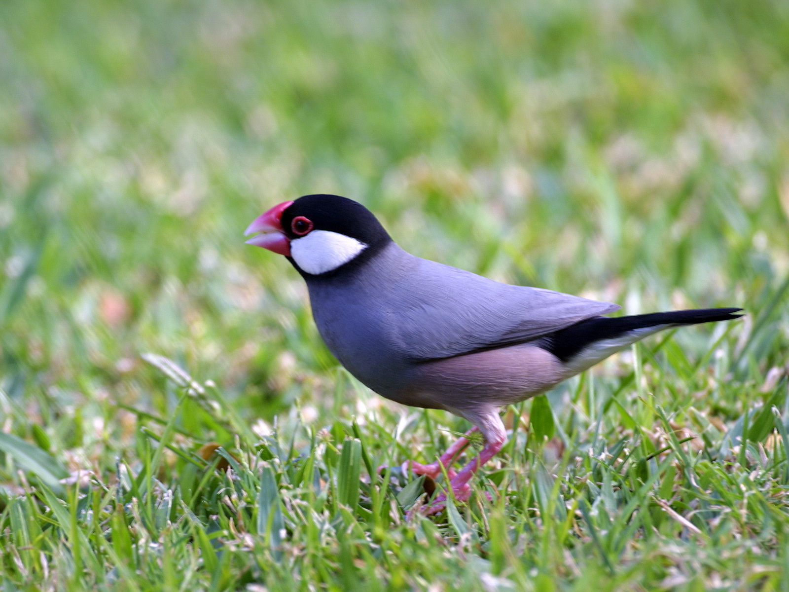 A Java Sparrow (also known as Java Finch and Java Rice Bird) at the University of Hawaii at Manoa campus, Honolulu, Hawaii, USA.